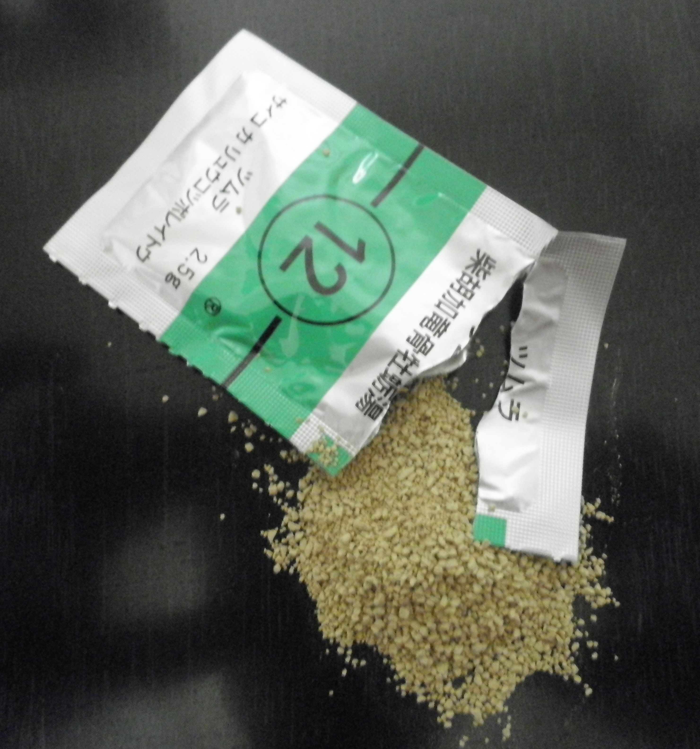 Chinese medicine whose name is Saikokaryukotuboreitou